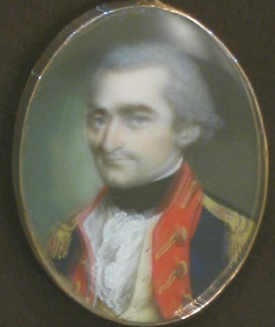 Col. Josiah Parker ca. 1789 John Ramage Born: Dublin, Ireland Died: Montreal, Quebec, Canada 1802 watercolor on ivory 1 5/8 x 1 1/4 in. (4.2 x 3.2 cm) oval Smithsonian American Art Museum Museum purchase through the Catherine Walden Myer Fund 1957.3.3 Smithsonian American Art Museum 3rd Floor, Luce Foundation Center